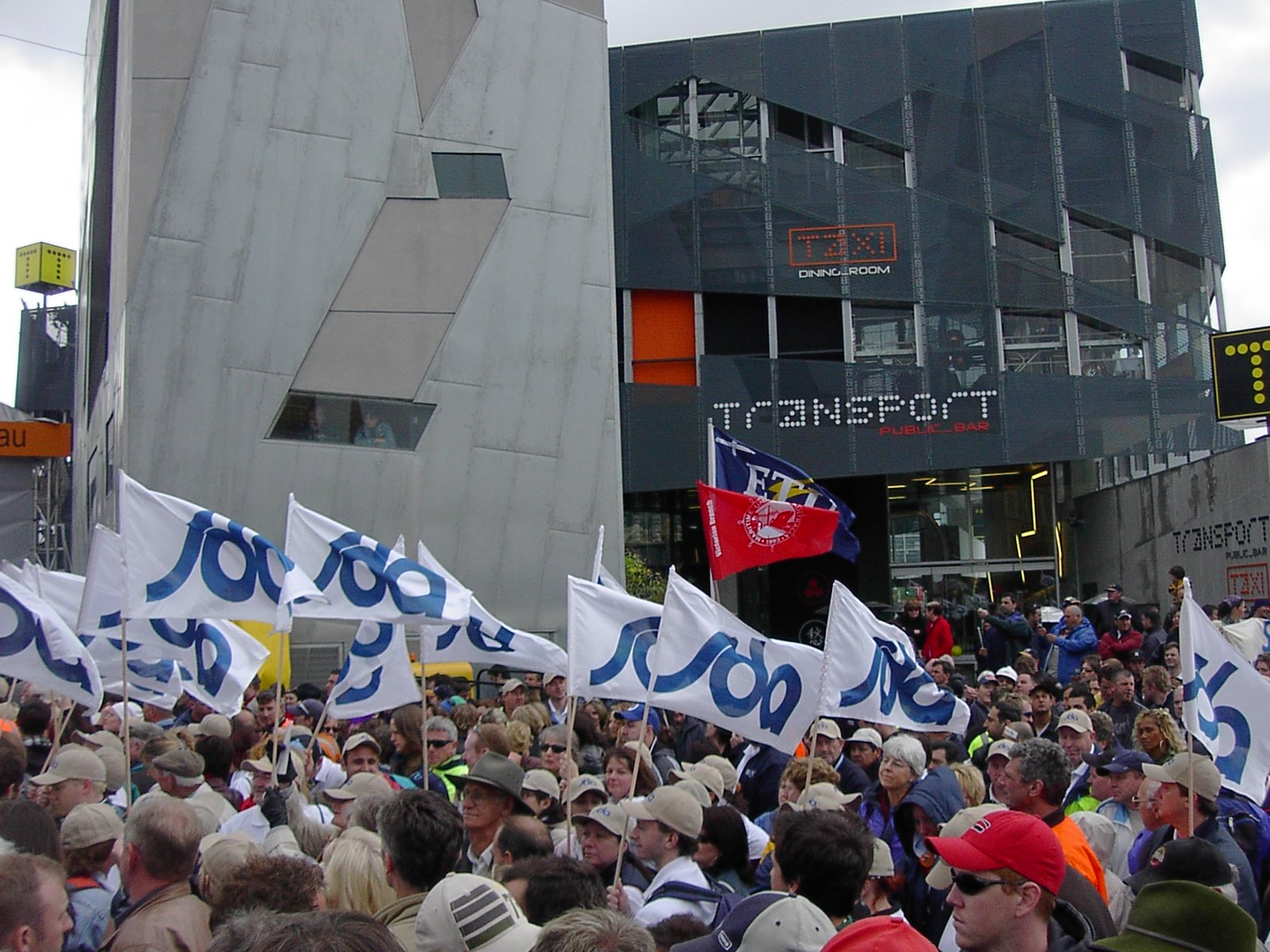 Photo by User:Adam Carr, November 2005